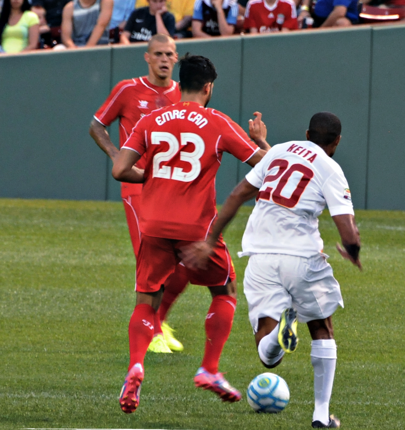 Liverpool FC v/s Roma @ Fenway Park (Boston, Massachusetts)